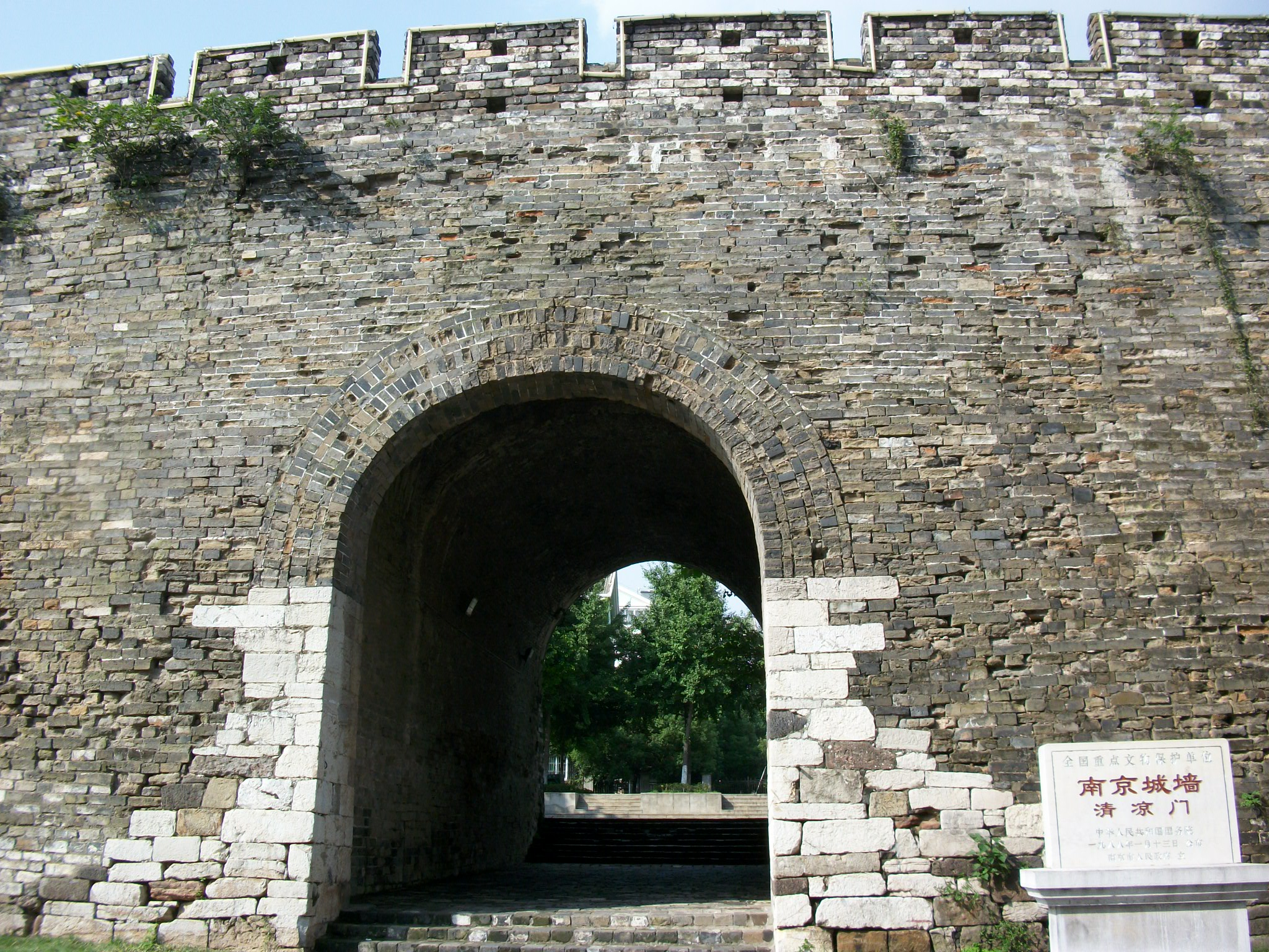 qingliangmen (清凉门).